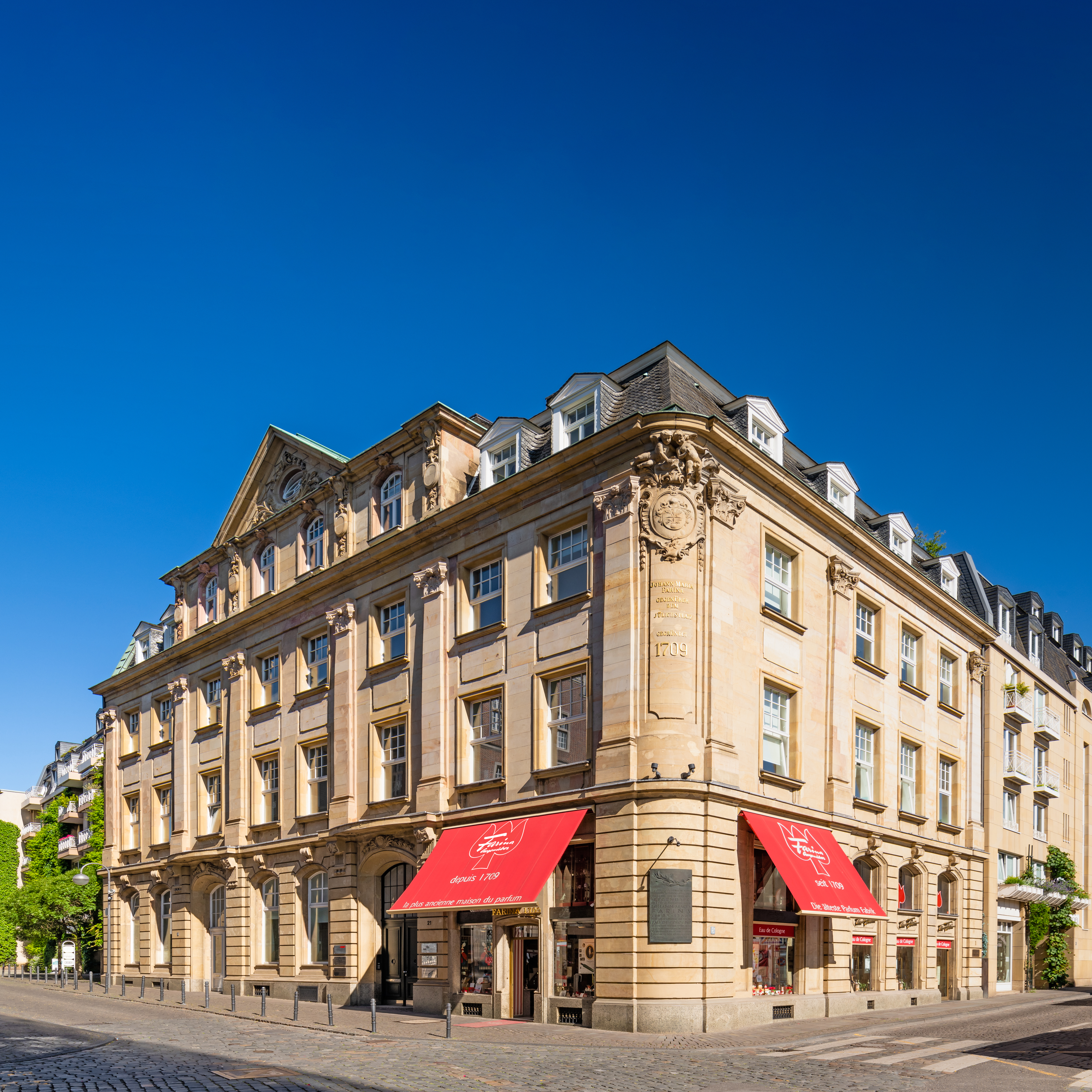 Farina House with Fragrance Museum in Cologne